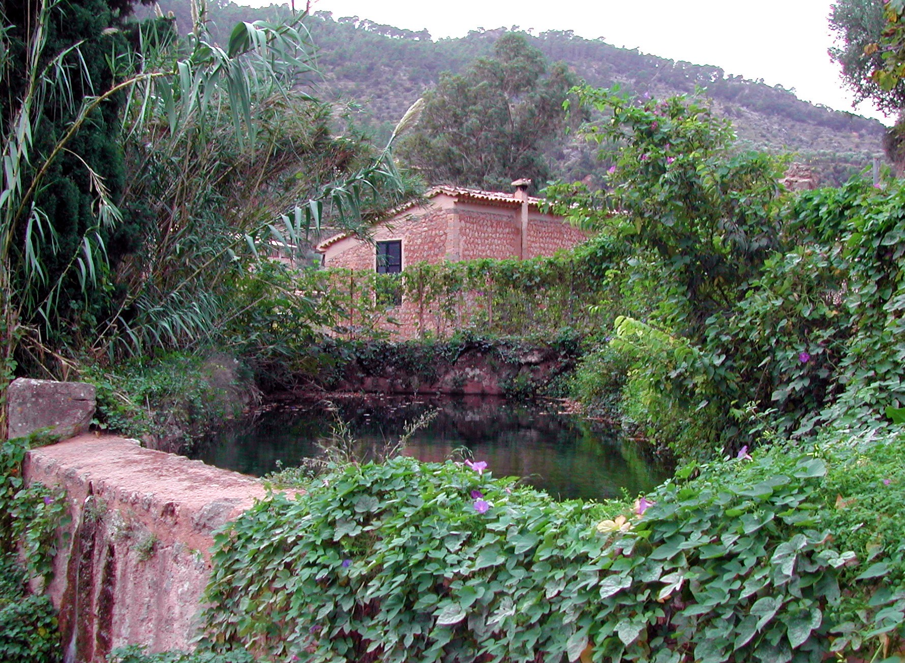 Pool at Deià